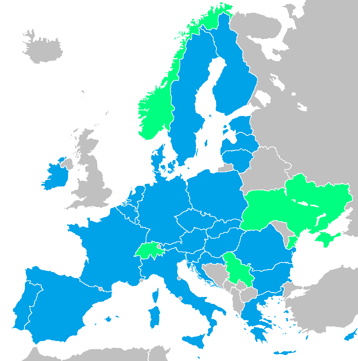 The European Defence Agency (EDA) members: Blue: European Union Light blue: Opt-out (Denmark) Green: Opt-in (Norway)